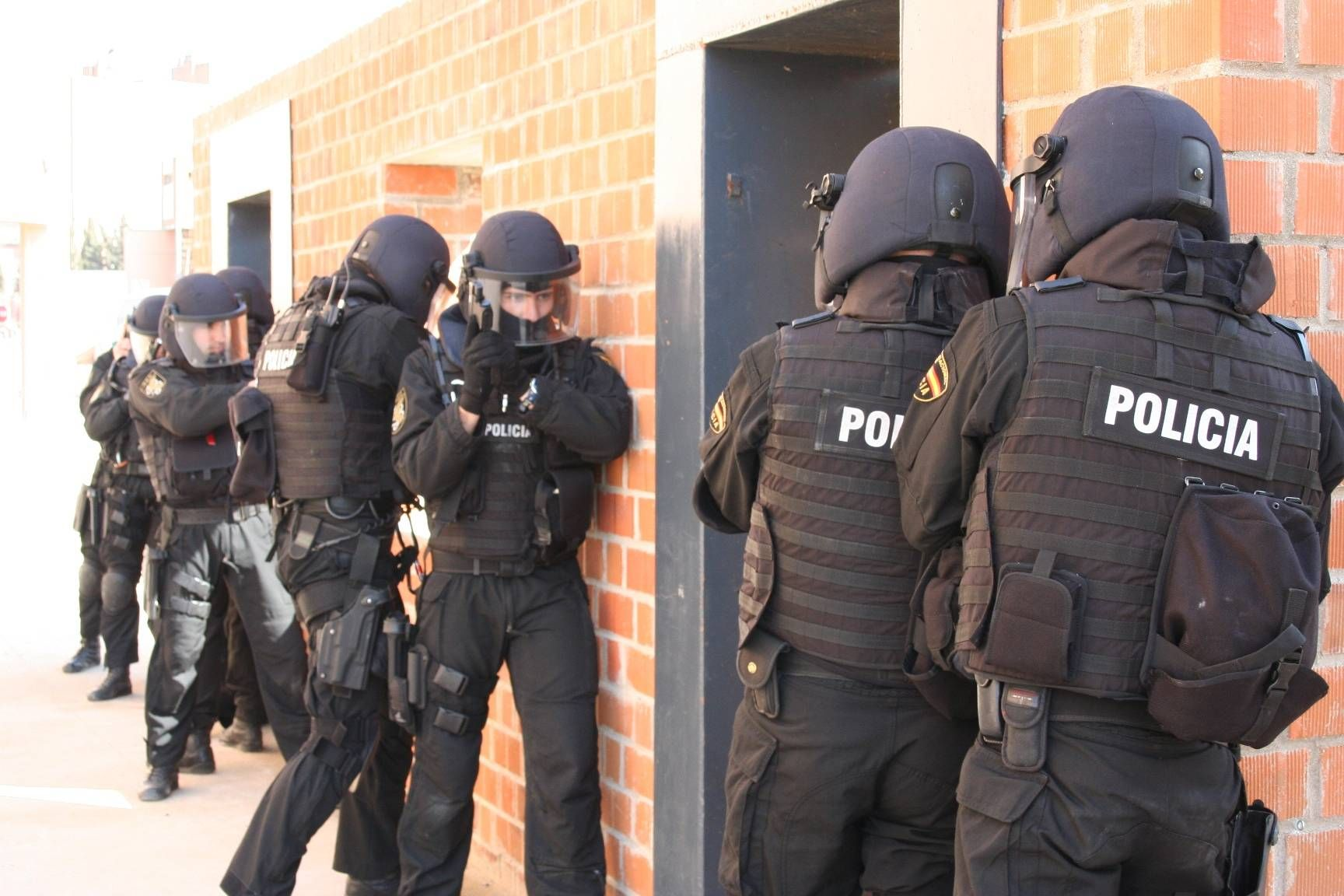 The Special Group of Operations preparing to break into a house.